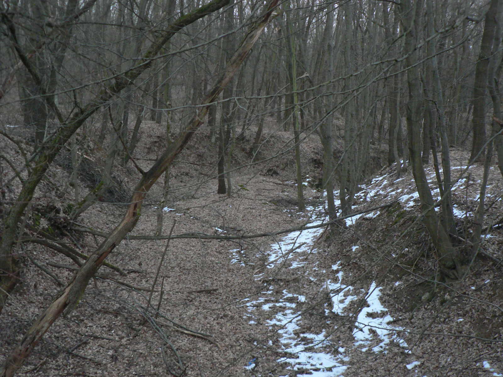 A Középső-Jegenye-völgy a Gr. Karátsonyi útról nézve